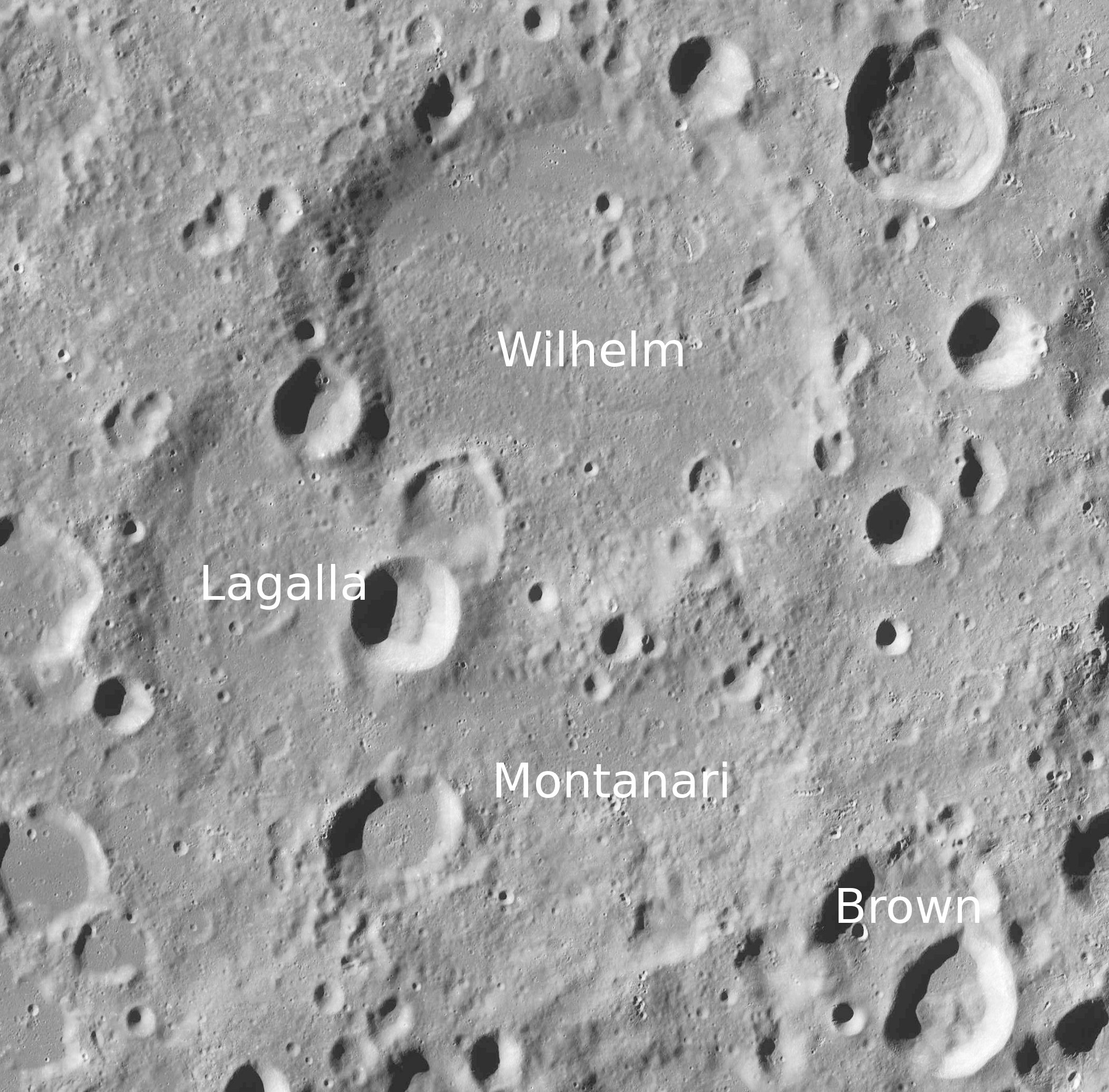 Craters Wilhelm, Lagalla, Montanari and Brown (detail of LRO - WAC global moon mosaic; Mercator projection)